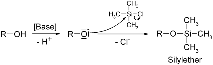 Formation of a silyl ether from an alcohol and chlorotrimethylsilane